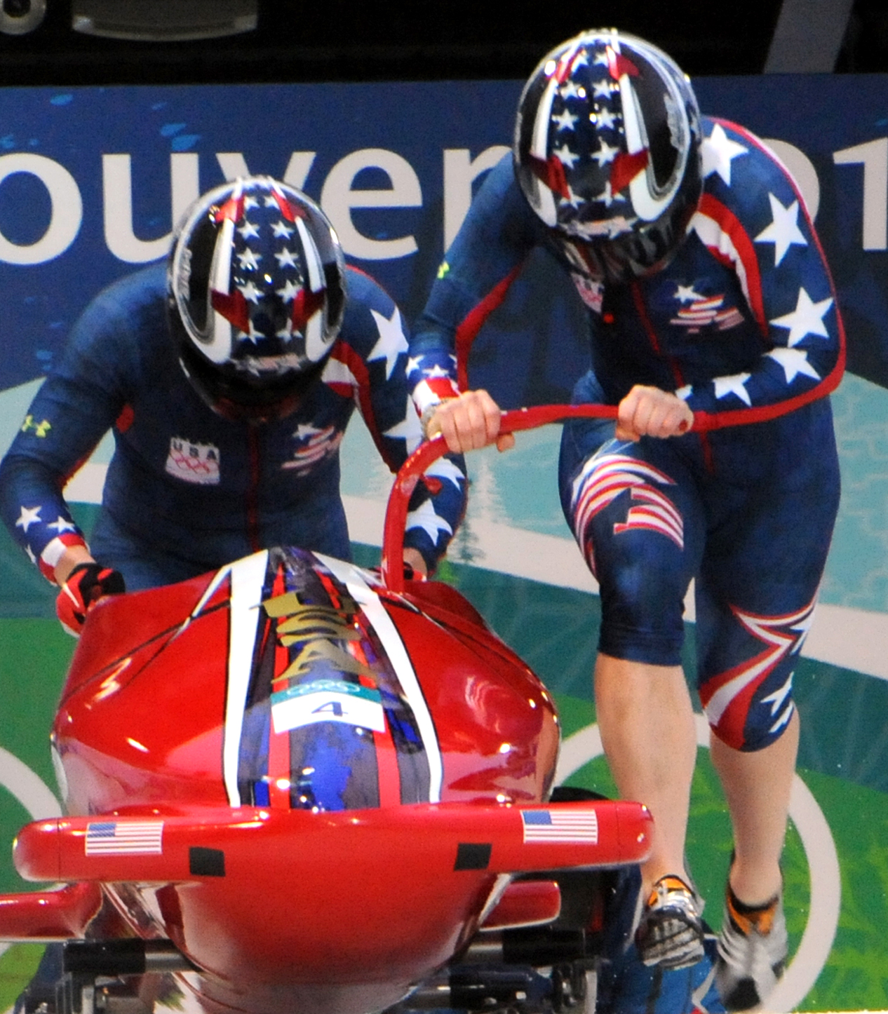 Army National Guard Outstanding Athlete Program bobsled pilot Sgt. Shauna Rohbock, right, and Michelle Rzepka push USA 1 to a start time of 5.20 seconds in the third heat of the two women's bobsled event at the 2010 Winter Olympics.